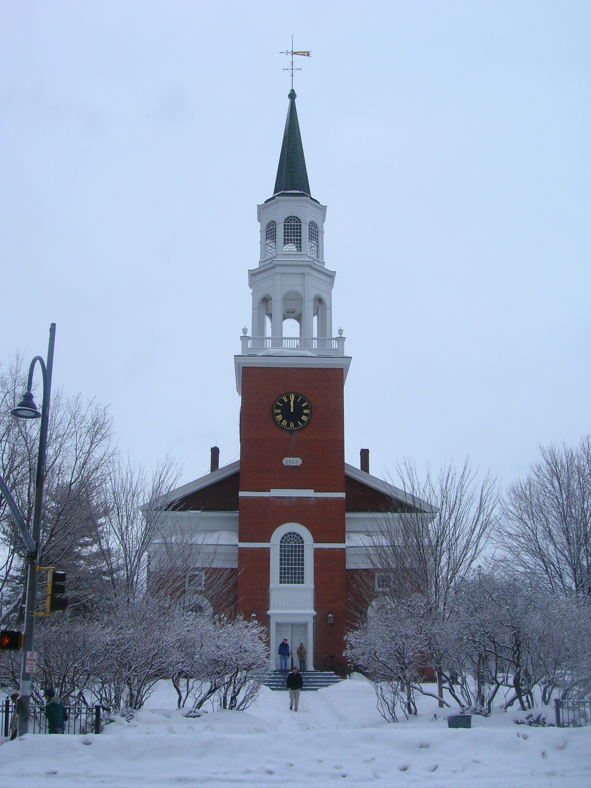 Unitarian Church at the top of Church St., intersecting Pearl St. in Burlington, Vermont, 2008. The building was added to the National Register of Historic Places (NRHP) as a contributing property of the Head of Church Street Historic District on July 15, 1974